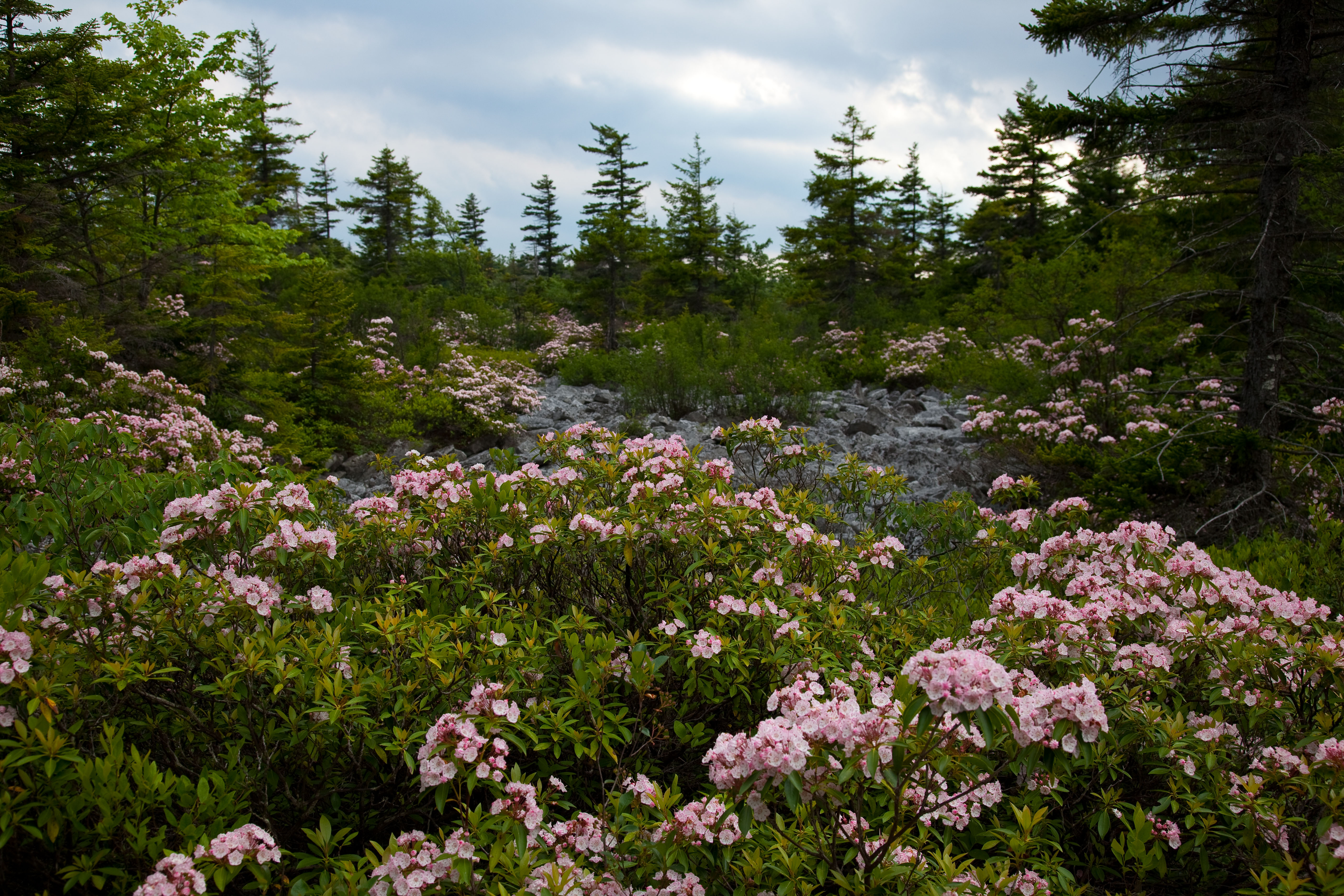 Wv Mountain Field Wildflowers